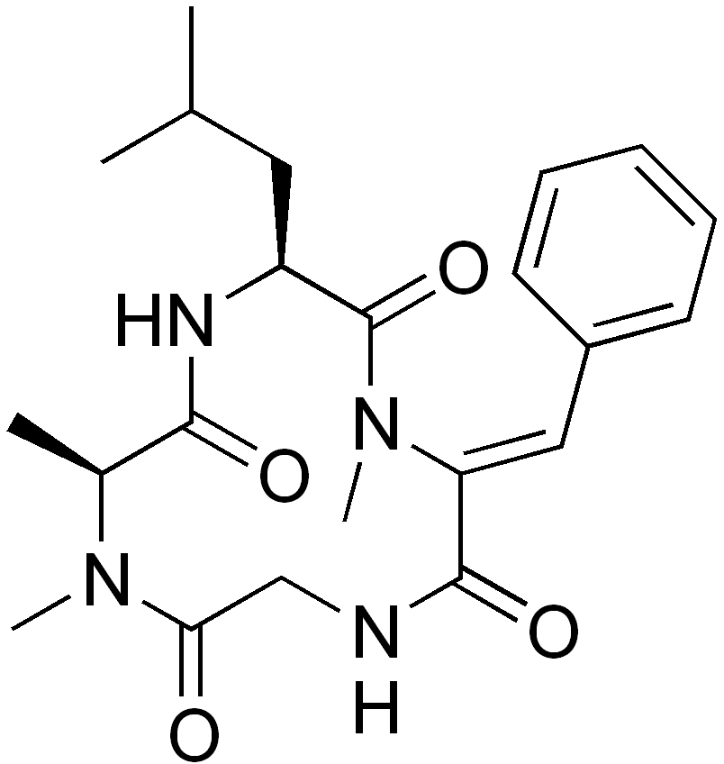 Chemical structure of tentoxin